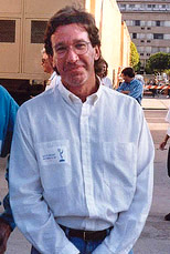 Ken Lillig with Tim Allen at the Emmy rehearsal 1993 - Permission granted to copy, publish, broadcast or post but please credit "photo by Alan Light" if you can